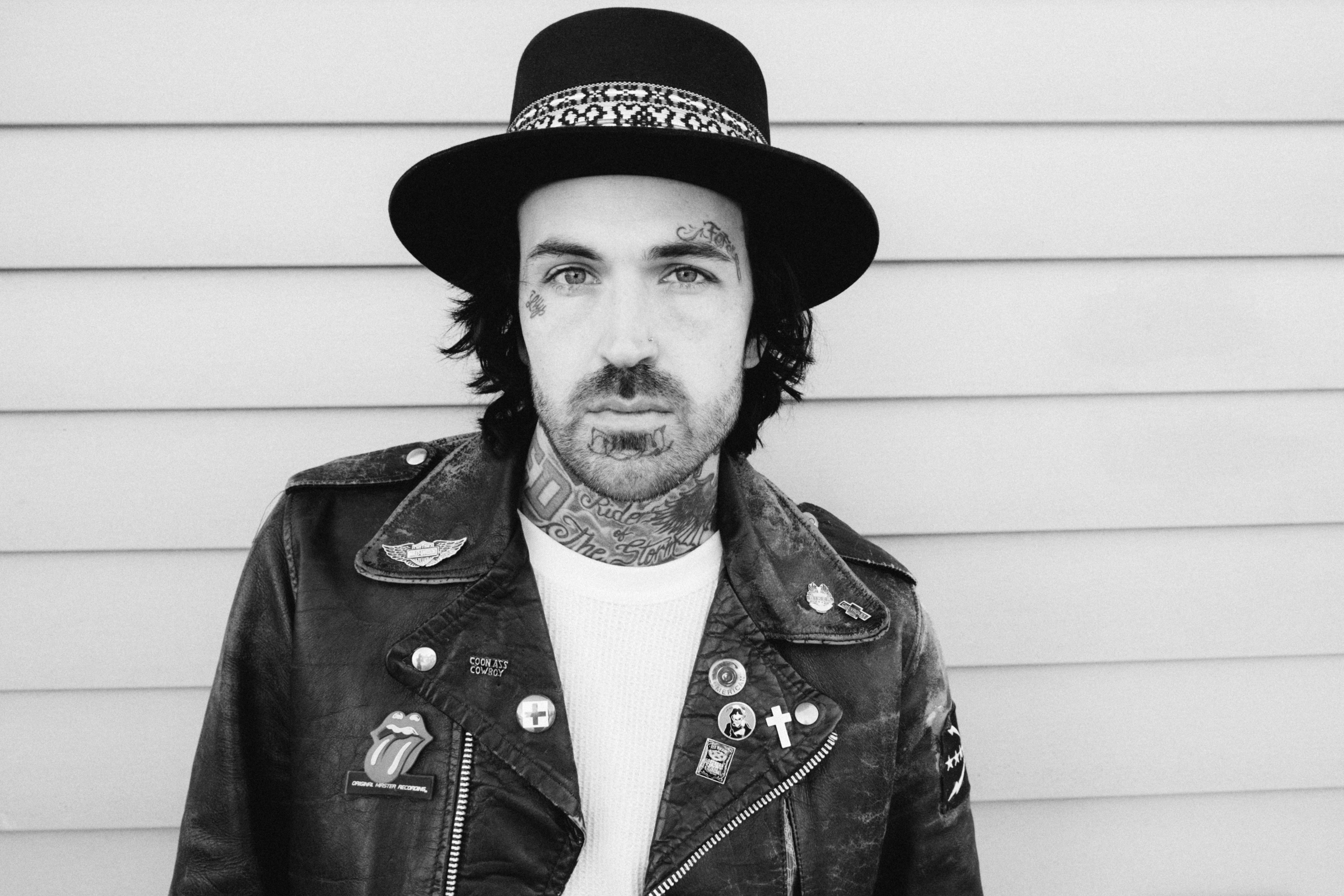 Press Pic - 2015